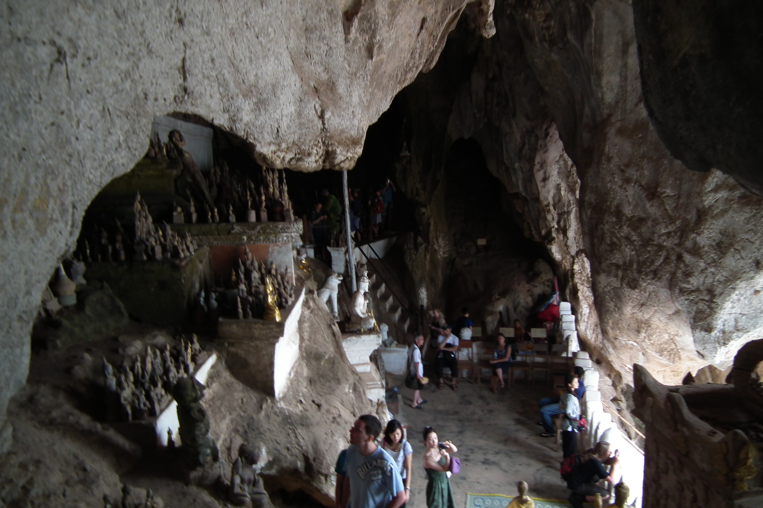 Near Pak Ou (mouth of the Ou river) the Tham Ting (lower cave) and the Tham Theung (upper cave) are caves overlooking the Mekong River 25 km from Luang Prabang, Laos. They are a group of caves on the left side of the Mekong river, about two hours upstream from the centre of Luang Prabang, and have become well known by tourists. The caves are noted for their miniature Buddha sculptures. Hundreds of very small and mostly damaged wooden Buddhist figures are laid out over the wall shelves. They take many different positions, including meditation, teaching, peace, rain, and reclining (nirvana).